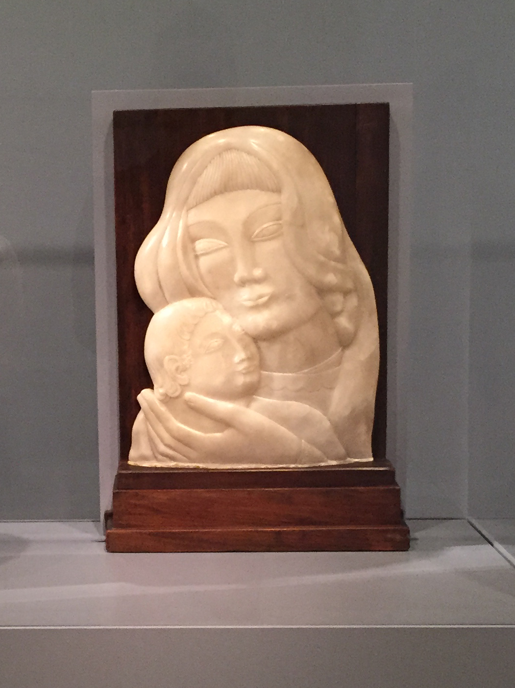 Robert Laurent's Mother and Child on display at the Smithsonian American Art Museum